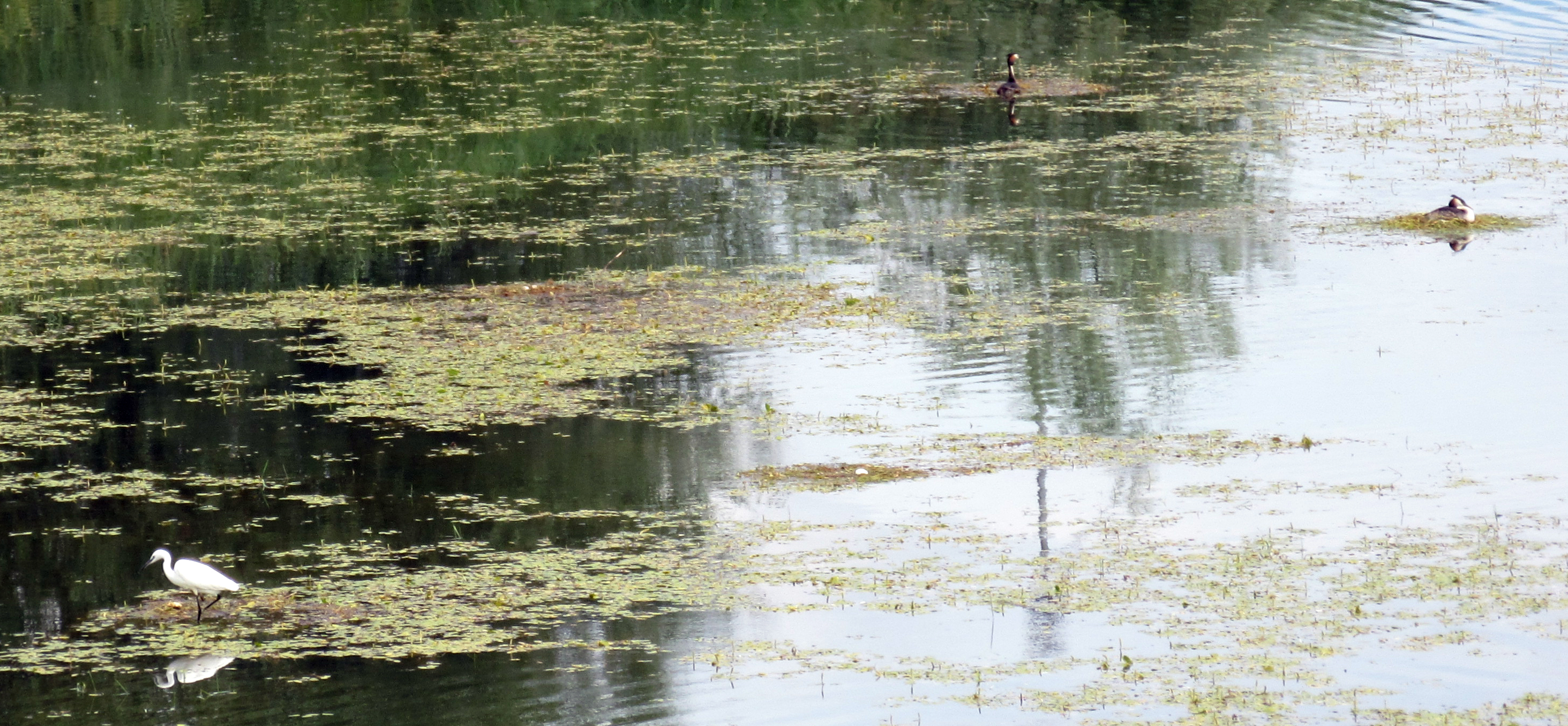 Birds in Lake Kerkini